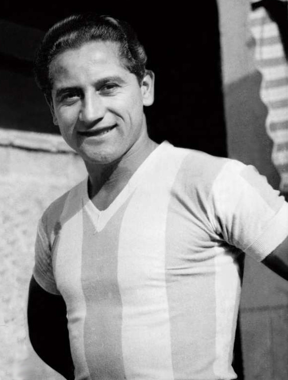 Argentine football striker Adolfo Pedernera with the national side.